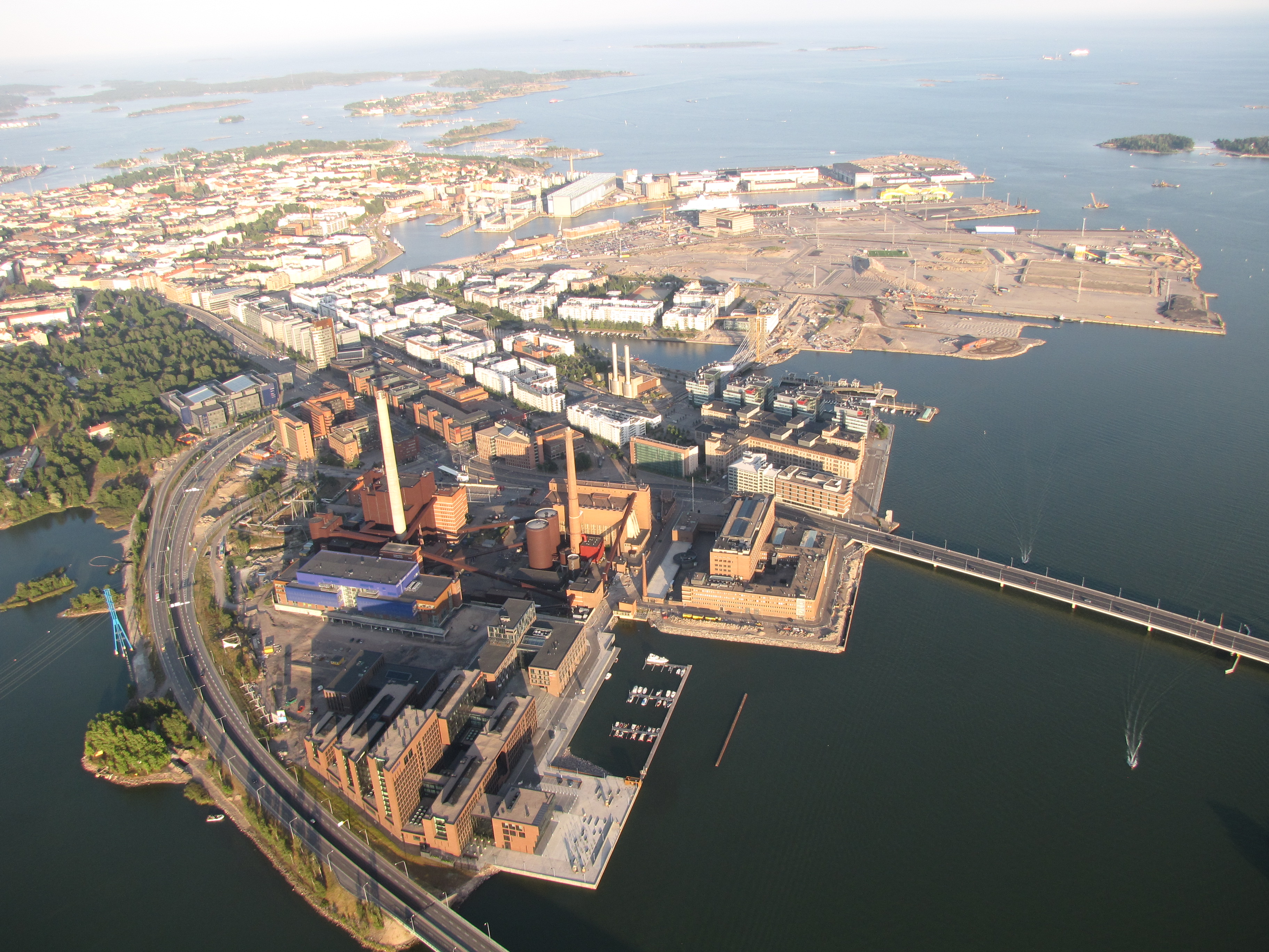 Ruoholahti from a hot air balloon, showing the Helsinki western harbour neighbourhood. Salmisaari powerplant in the foreground.